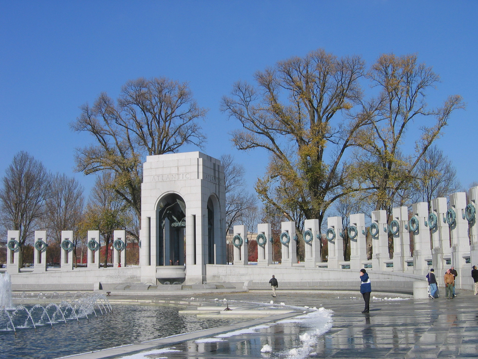 National World War II Memorial, on the National Mall in Washington, D.C.